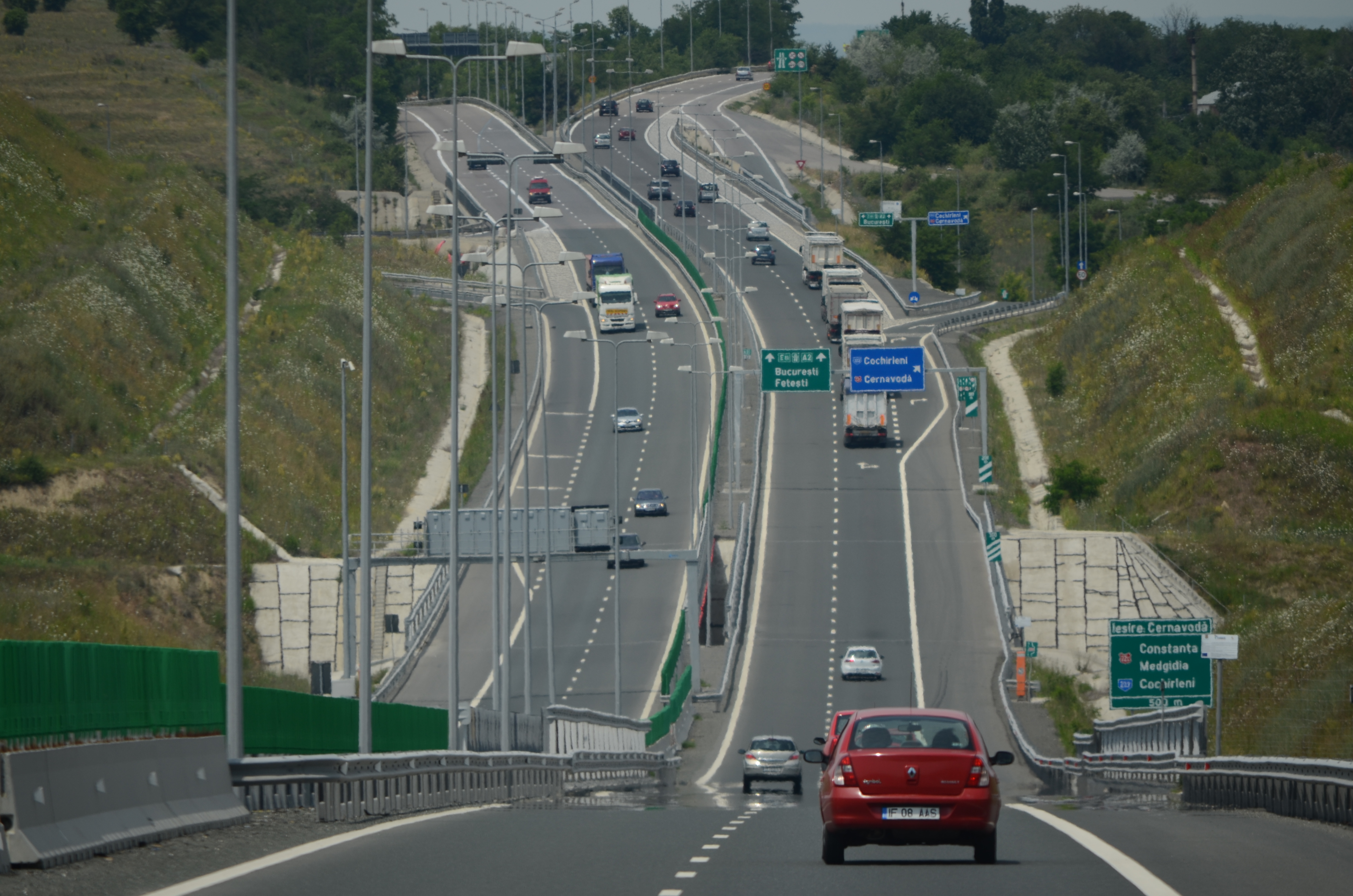 A2 motorway Romania (km 161, near the intersection with DN22C)